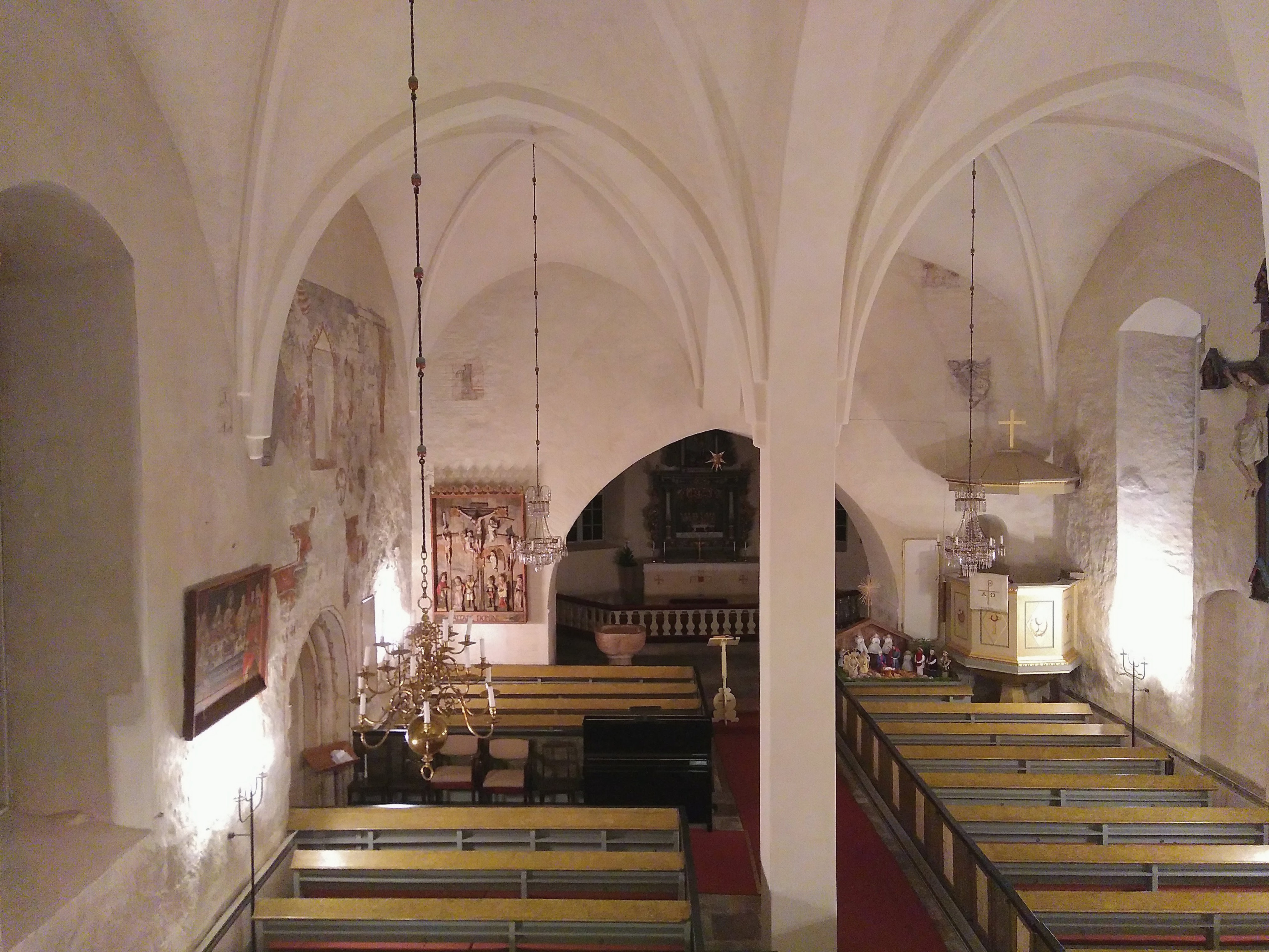 Saltvik church, Åland islands. Image from the organ loft facing the altar.